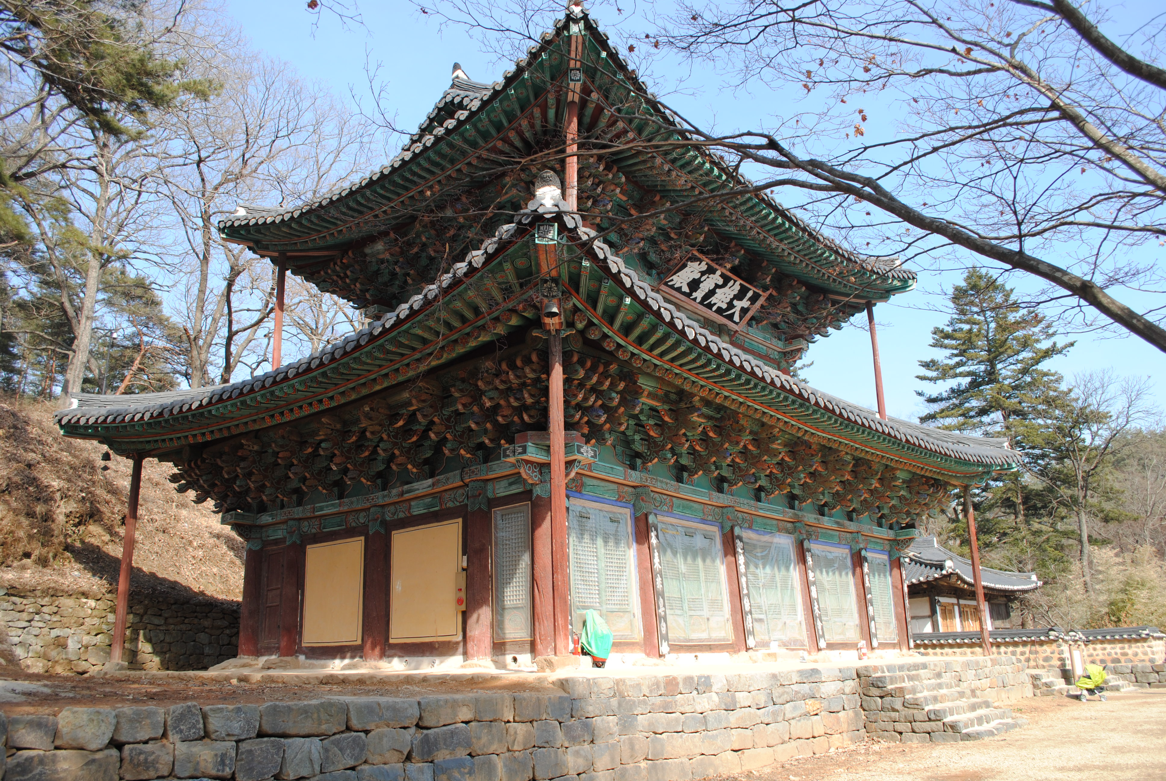 Magoksa Deawoongbojeon, Korea national treasure number 801